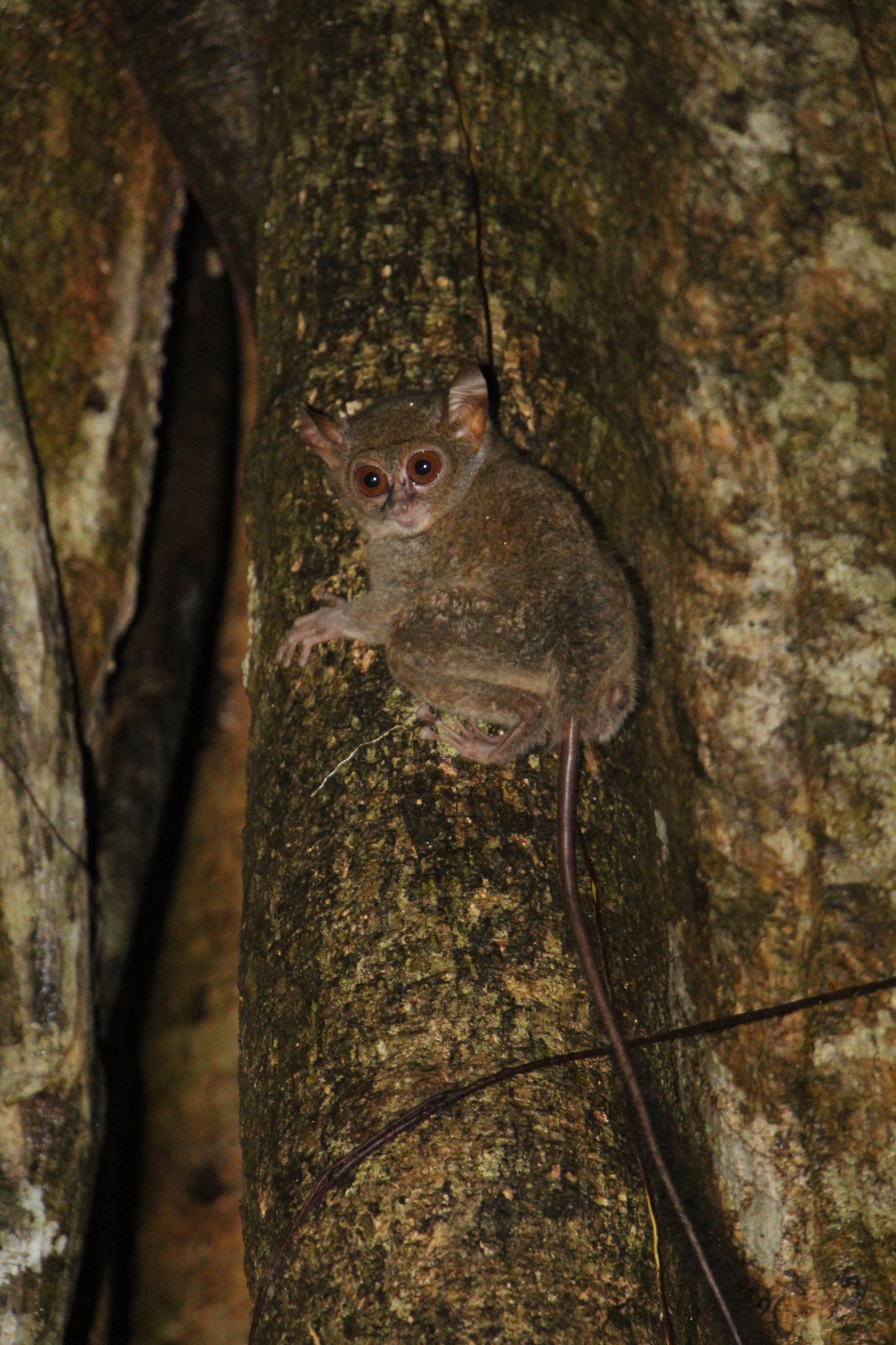 sulawesi tarsius photographed in Tangkoko National Park